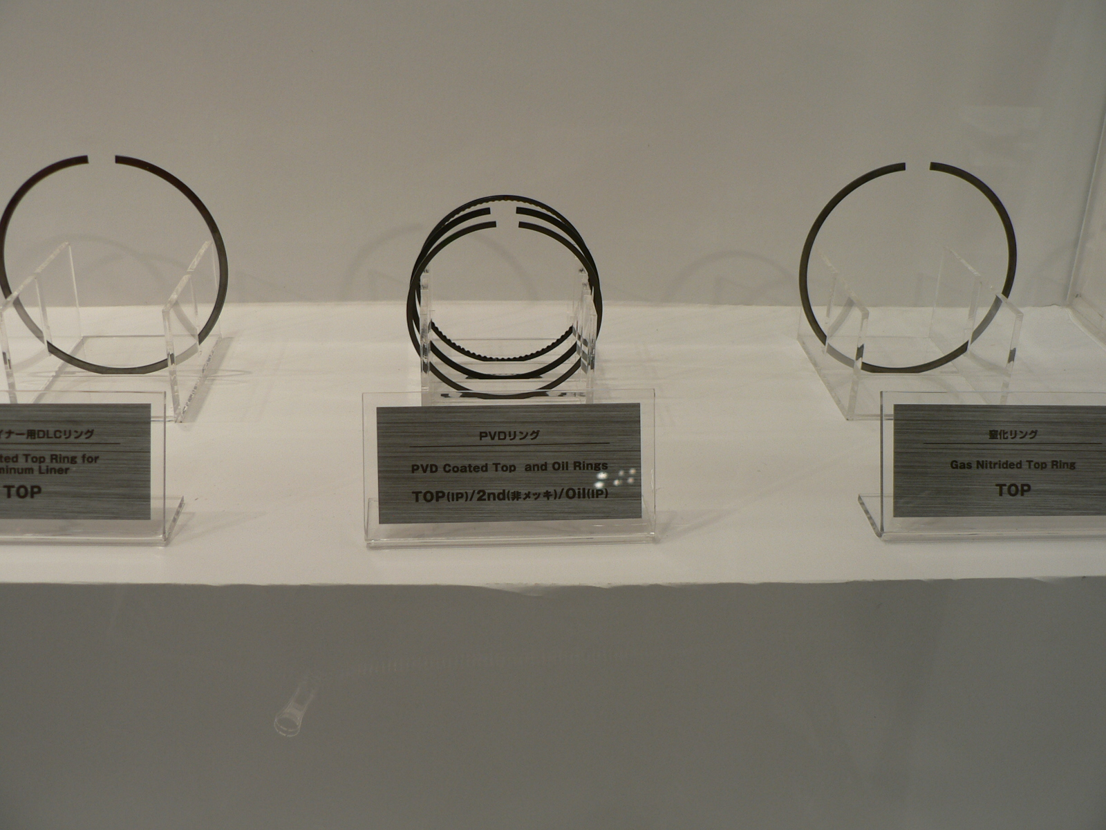 Piston rings by RIKEN CORPORATION at Tokyo Motor Show 2007.